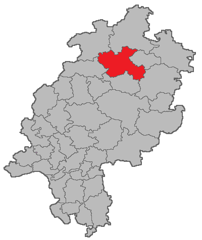 Map of the district court Fritzlar in Hesse